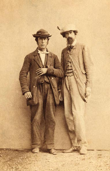 Leslie Stephen with guide Melchior Anderegg c. 1870